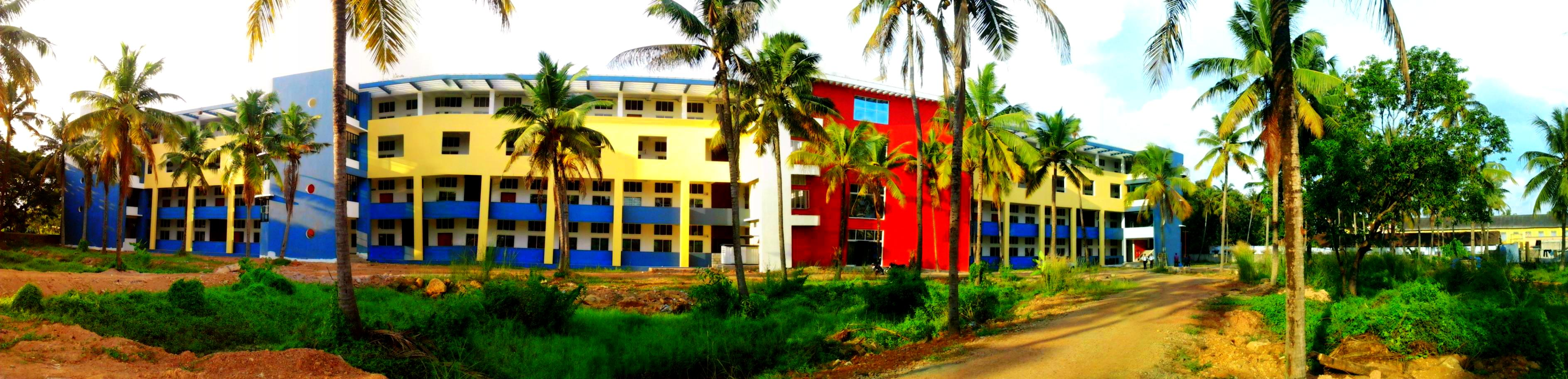 Panoramic View of Bishop Jerome Institute, Kollam City